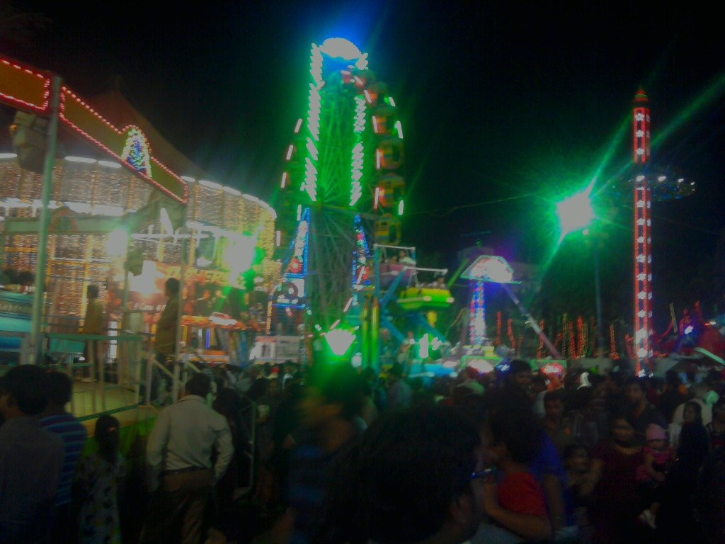 Rides at the Numaish, Hyderabad